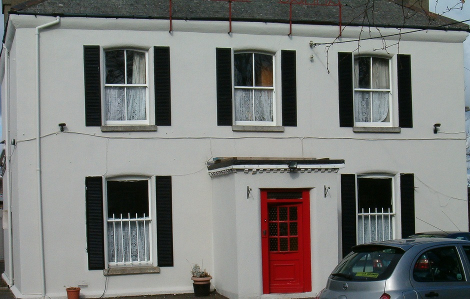 Franshaw house the house which is the main area of Ardscoil Éanna